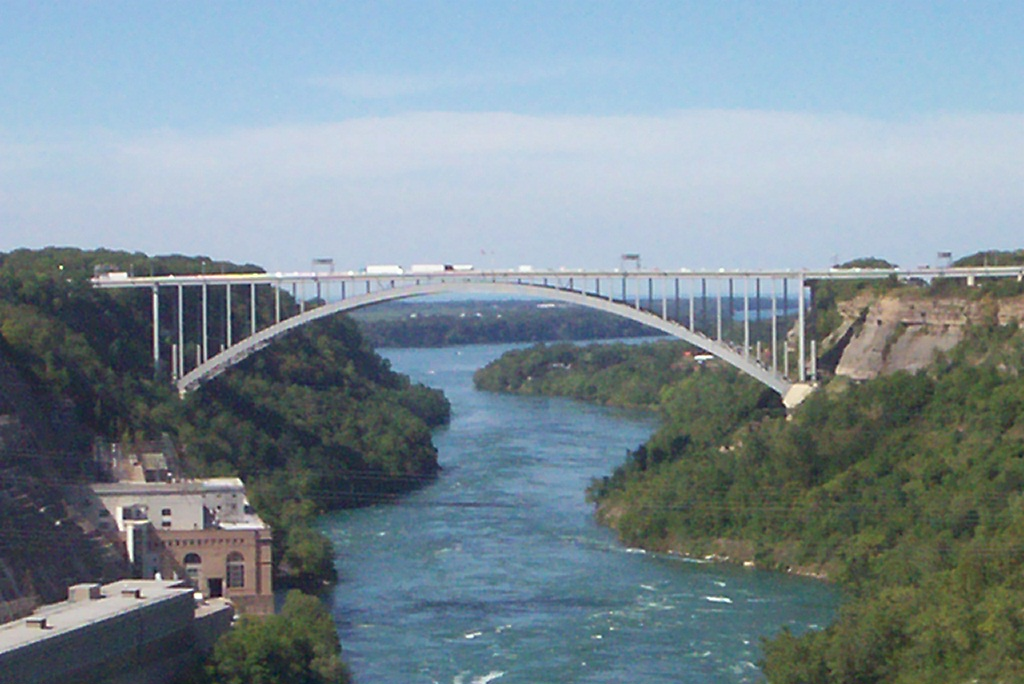 The Lewiston-Queenston Bridge as seen from the New York Power Authority's Niagara Project Power Vista observation deck.